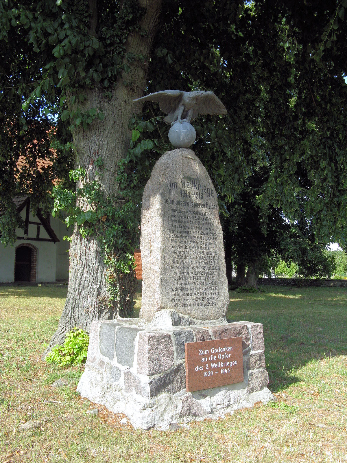 War memorial 1914/18 in Kieve, disctrict Mecklenburgische Seenplatte, Mecklenburg-Vorpommern, Germany